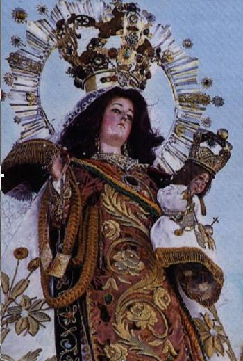 Carmen's Virgin